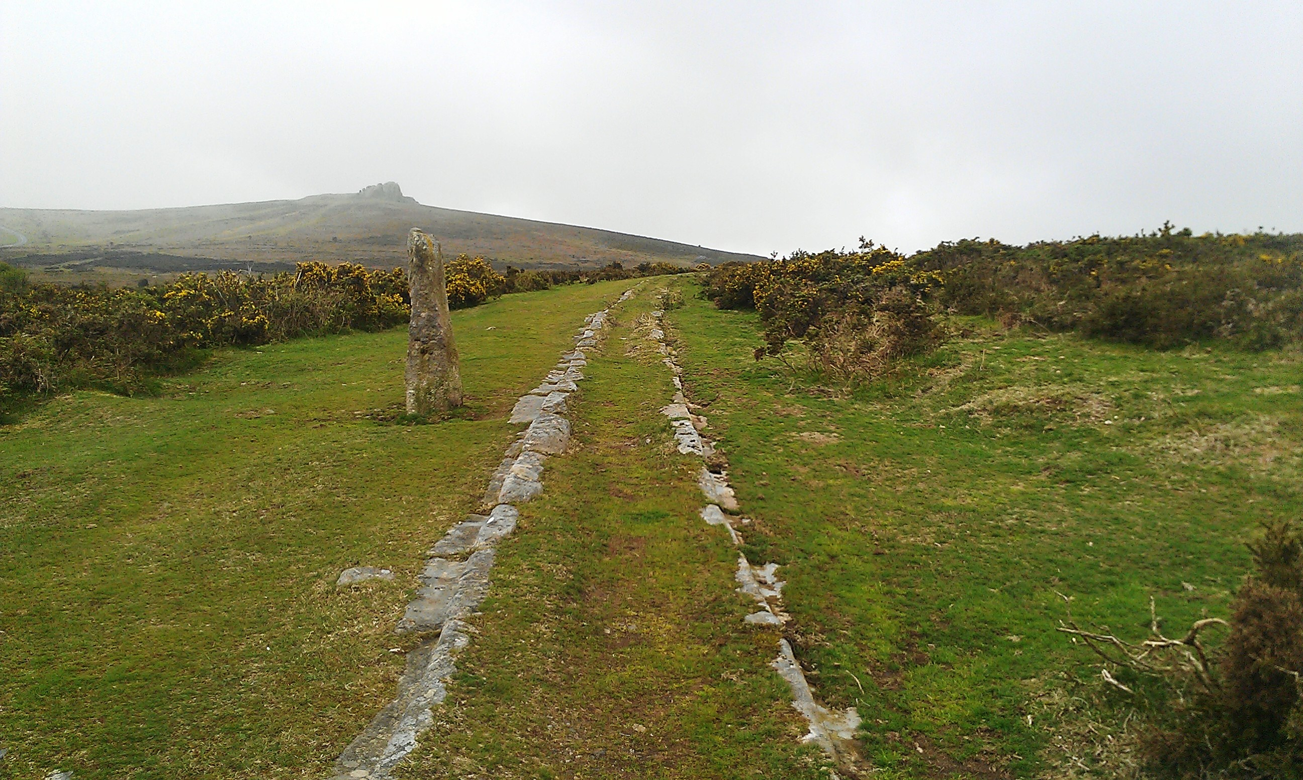 The Haytor Granite Tramway, with Haytor in the background; taken in Dartmoor, Devon.